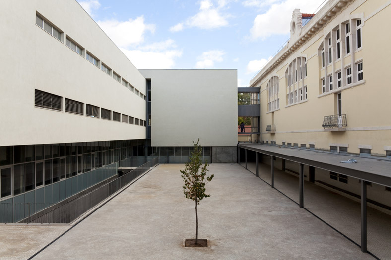 New and old Buildings at Liceu Pedro Nunes